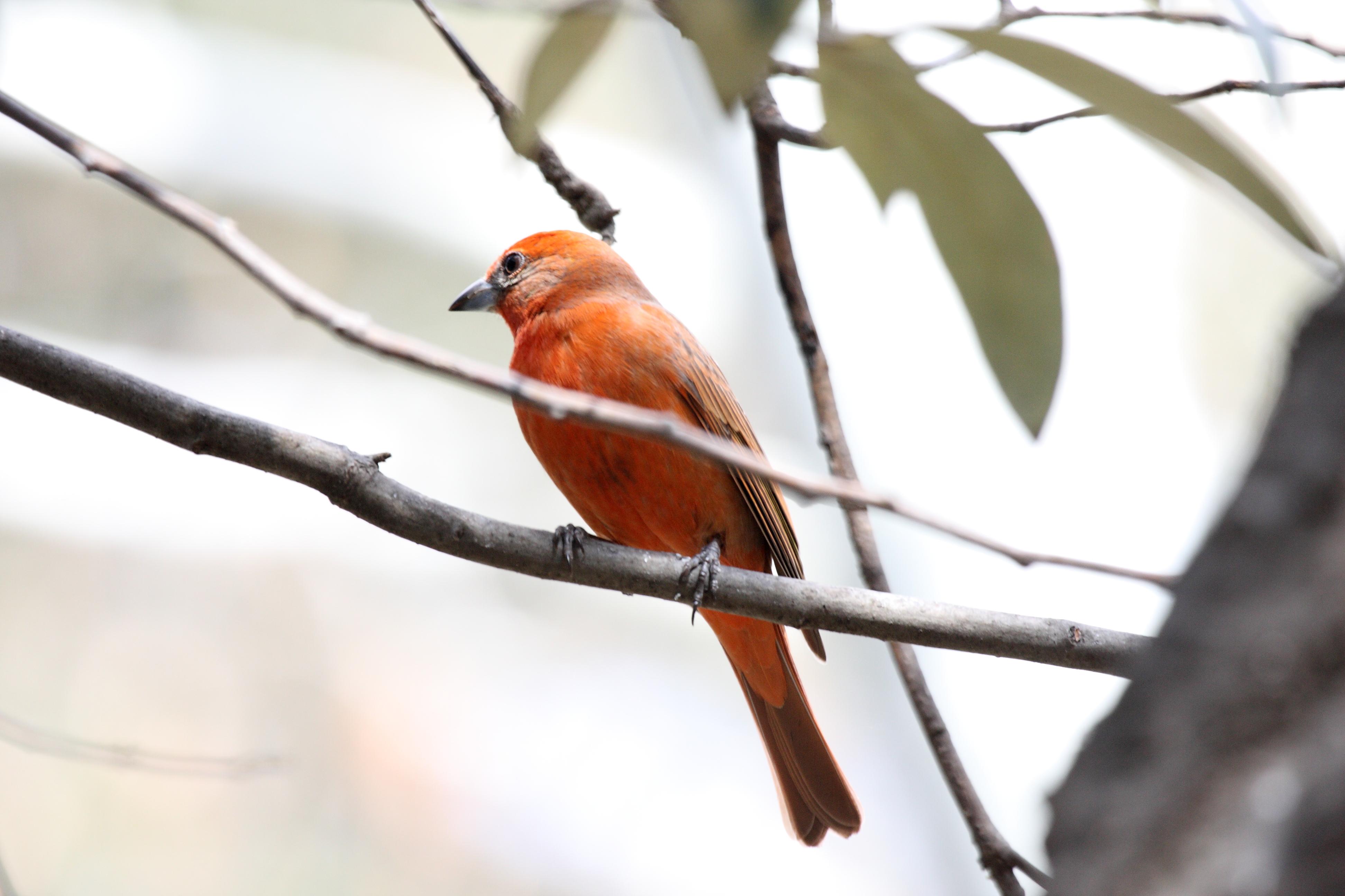 Hepatic Tanager (Piranga hepatica), USA